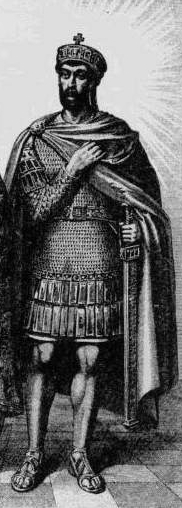 St. Archil, Prince of Kakheti